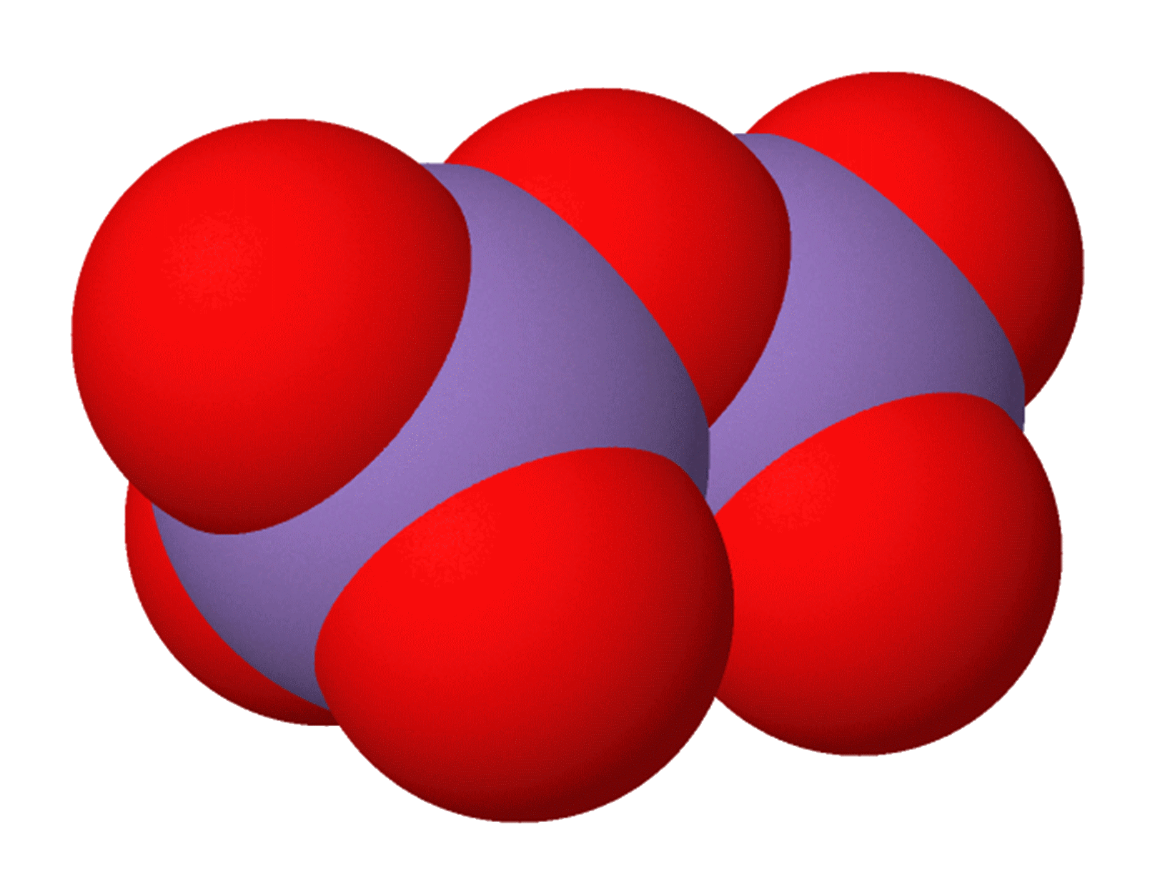 3D Spacefill of Manganese heptoxide